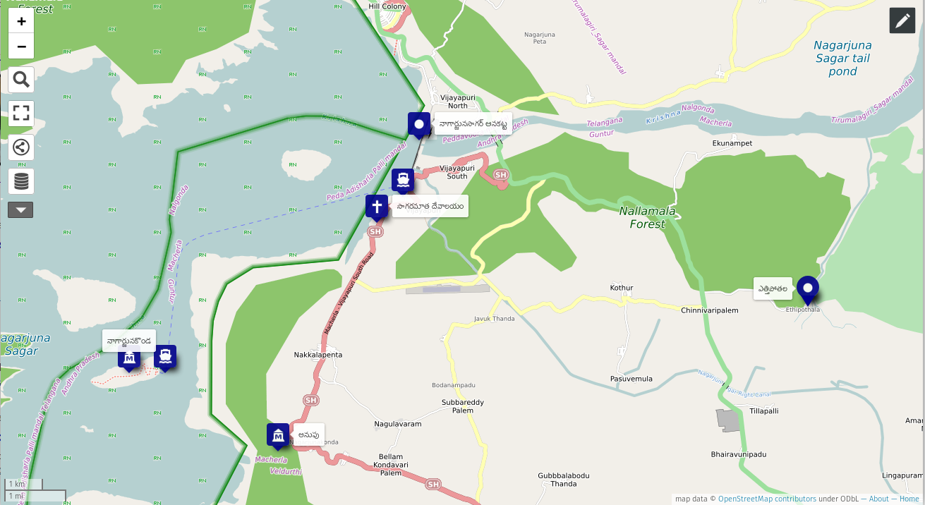 Nagarajunasagar tourist attractions Editable at